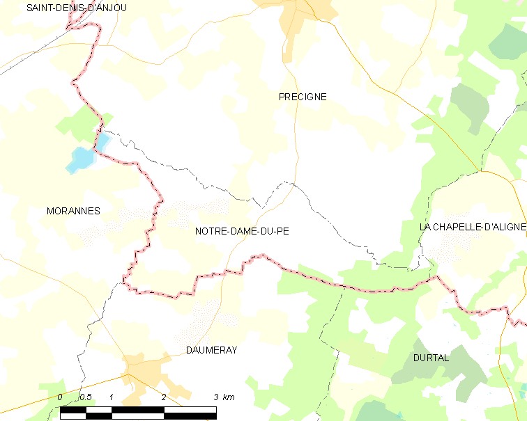 Map of French municipality